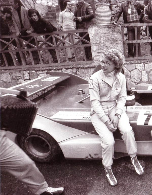 Entry #7 at Targa Florio on 14 May 1976 was an Osella driven by Anna Cambiaghi and Giancarlo Galimberti. They did not finish.[1]